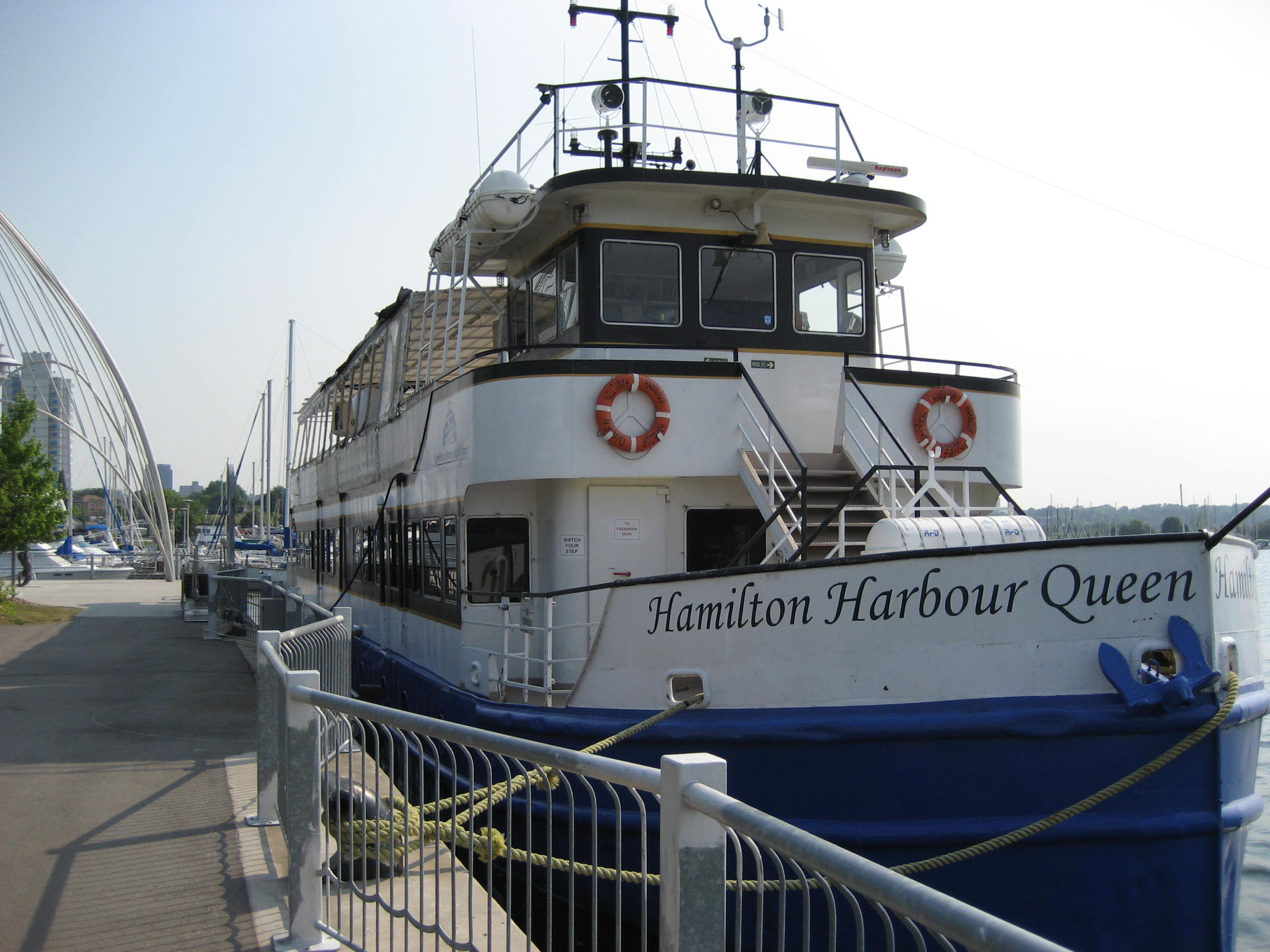 Hamilton Harbour Queen, Tour Boat, Pier 8, Hamilton, Ontario